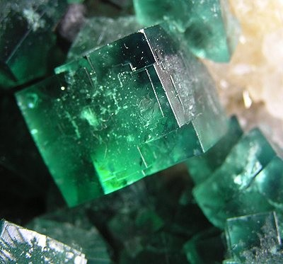 Fluorite Locality: Rogerley Mine, Frosterley, Weardale, North Pennines, County Durham, England, UK (Locality at ) Size: 15.9 x 14.5 x 11.2 cm. A large plate of sparkly quartz showcases a 13 cm x 9 cm cluster of fine English fluorites! These wonderfully transparent fluorites measure to 1.5 cm along the edge. Intermixed with them, you can see some gray octahedrons of galena. The Rogerley is a classic English locality that has been re-mined over the past five years, turning out a new generation of fine specimens - highly welcomed by collectors, since English fluorites have a special panache and desirability, and have been just so hard to get. The contrast of deep green crystals with the white quartz makes this large specimen truly special. Highly fluorescent. Fluorites from here on such nice contrasting matrix are hard to obtain.